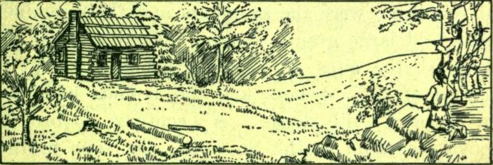 Maliseet and Mi'kmaw "attack on the [Maine] settlement"